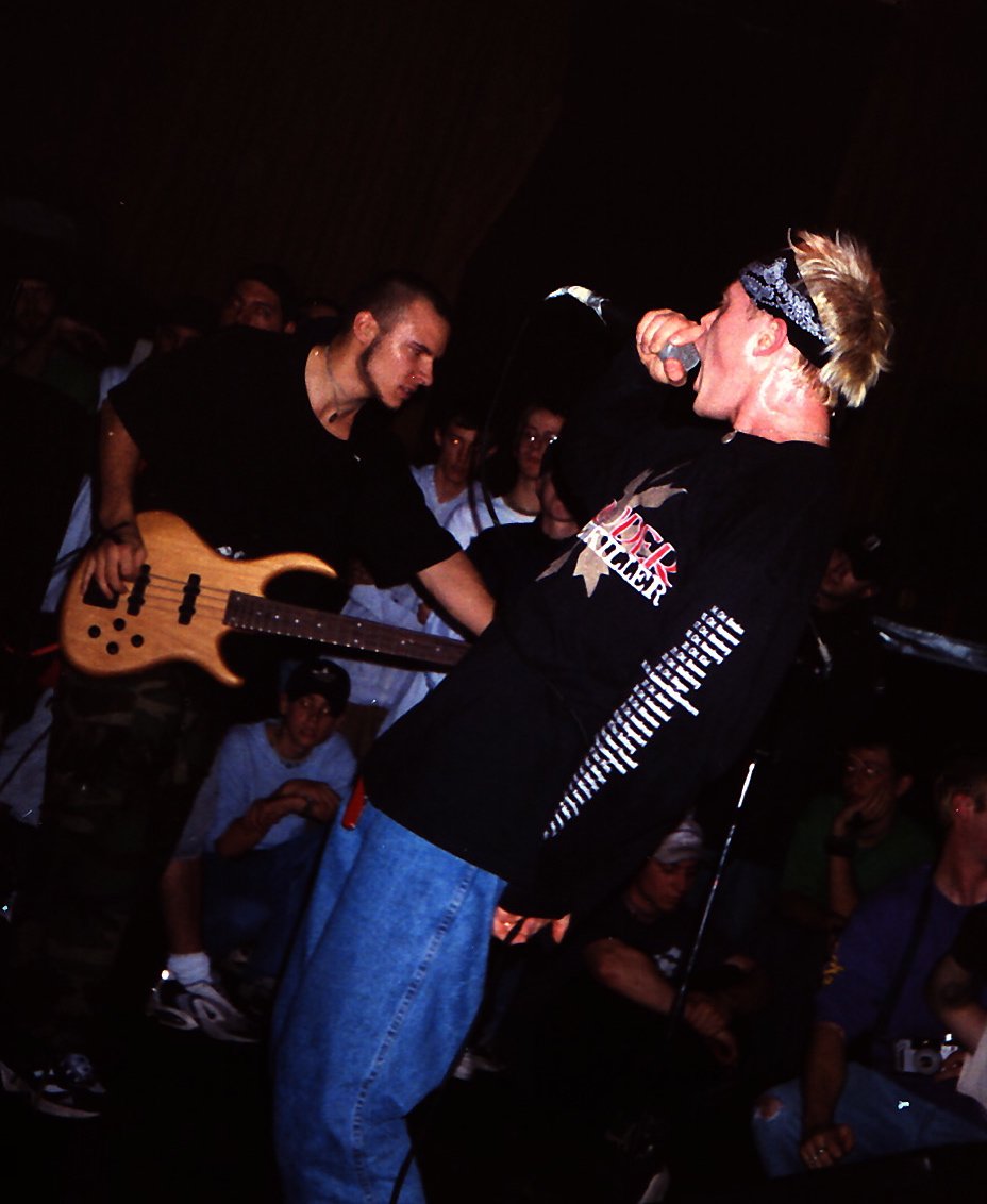 Earth Crisis at the Emerson Theater in Indianapolis, IN (with Jihad and Birthright in November 1996) - 17